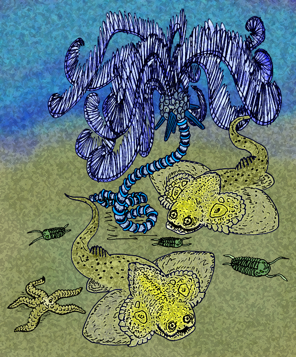 Reconstruction of the rhenanid placoderm Gemuendina stuertzi, of Devonian Hunsrück, with the crinoid Acanthocrinus rex, the trilobite Phacops fernandi, and the starfish Urastrella asperula.